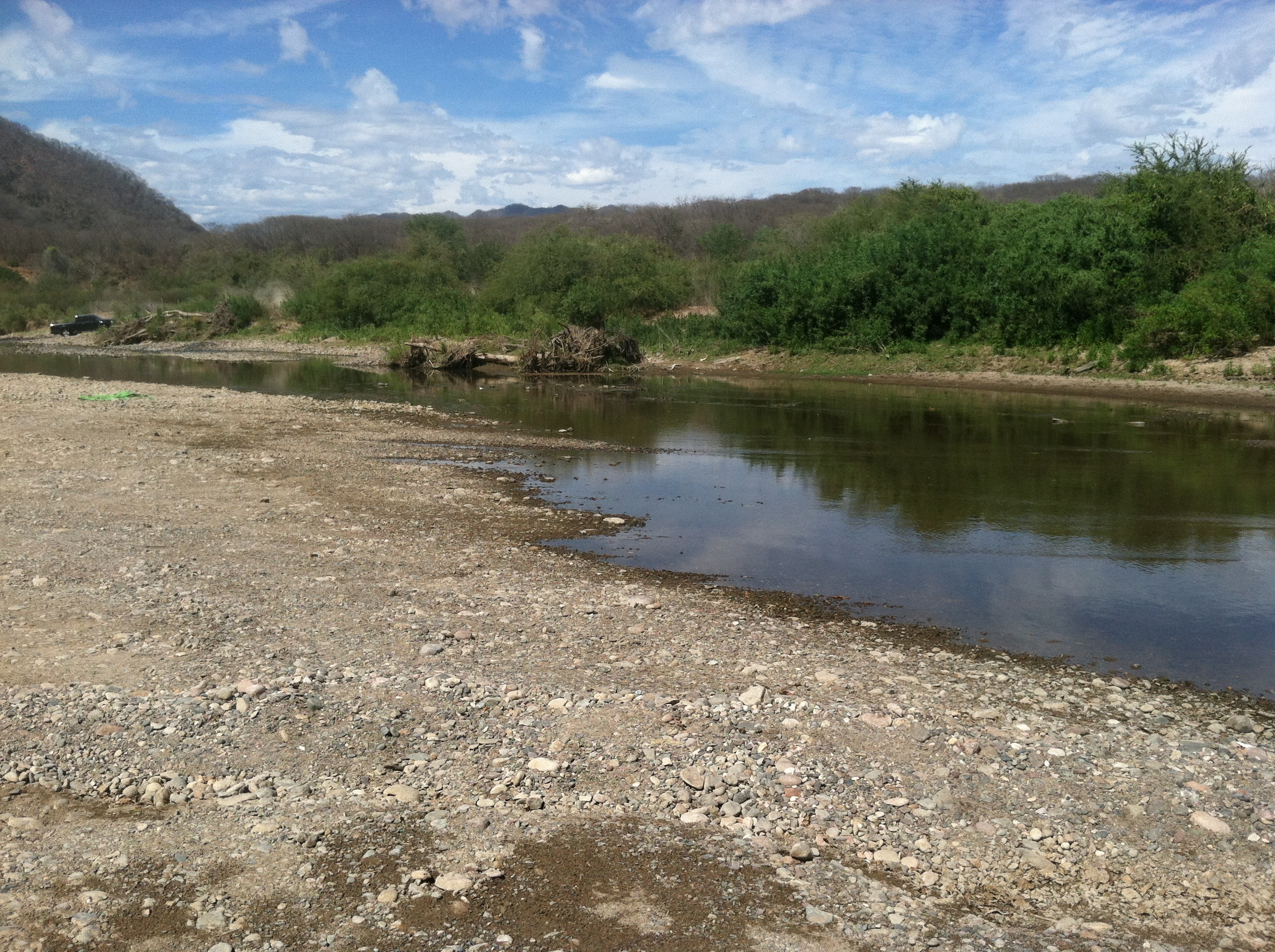 Tamazula River during dry season. March 2013.